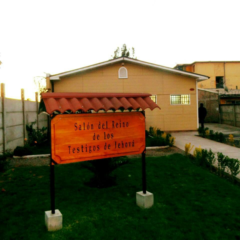 Kingdom Hall of Jehovah's Witnesses, in Santiago, Chile.